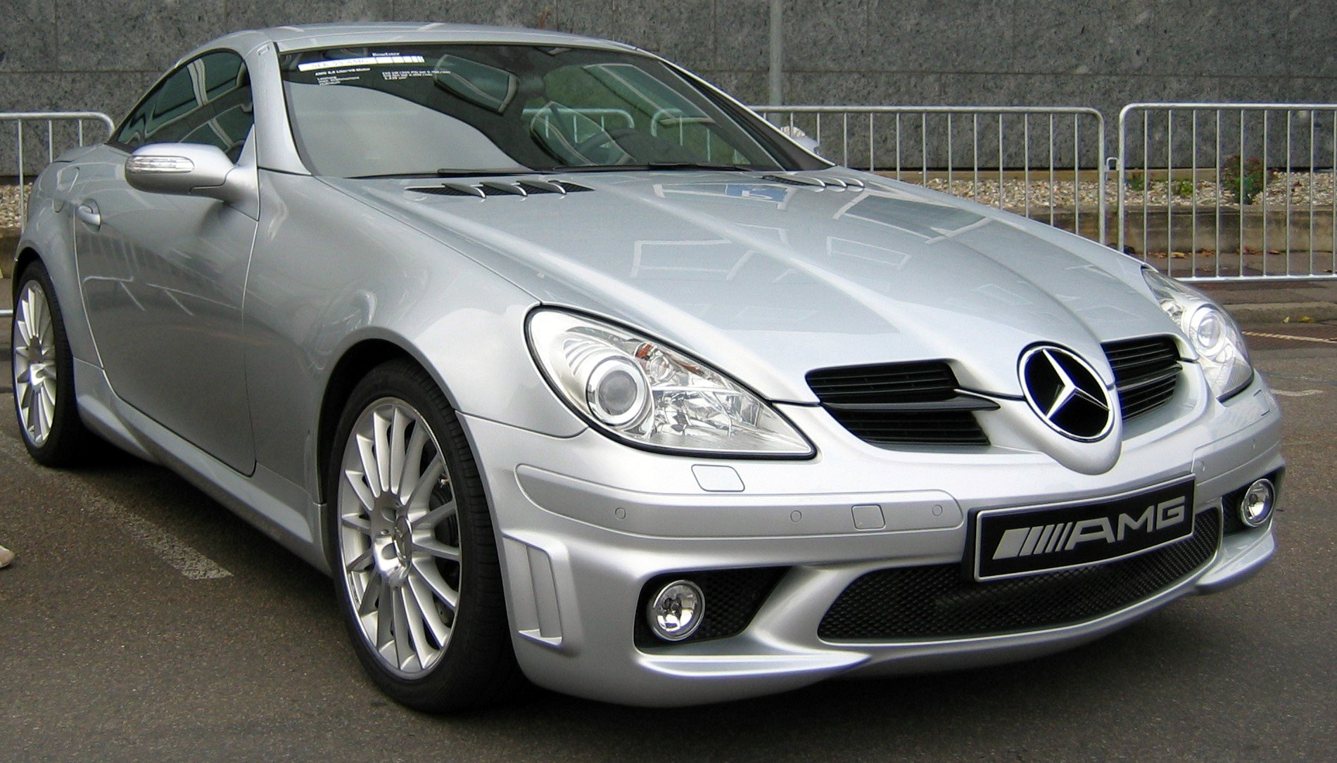 Mercedes-Benz SLK 55 AMG at Stars and Cars 2004